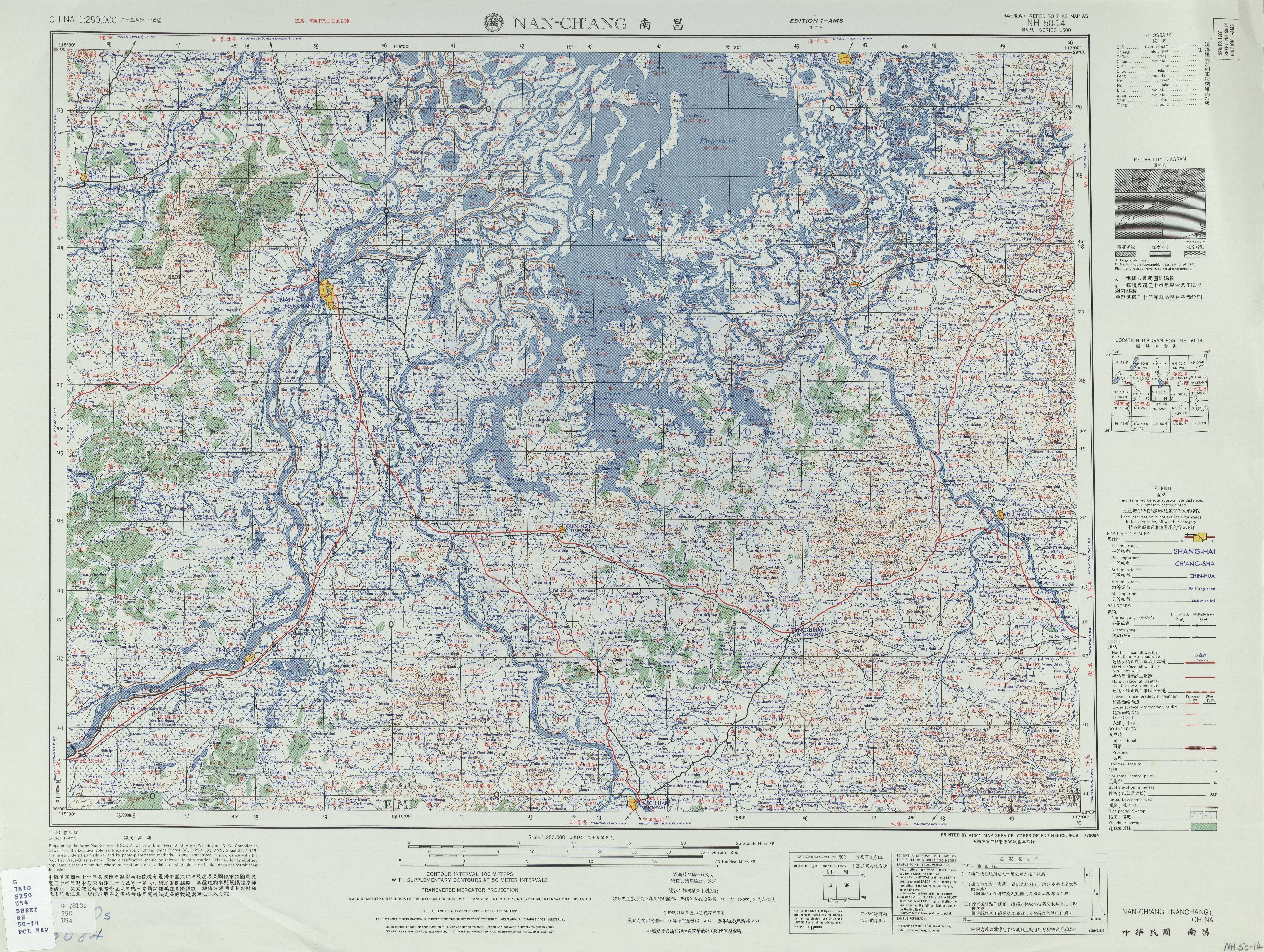 Map of Nanchang (Nan-ch'ang) and surrounding region, in the China AMS Topographic Maps series